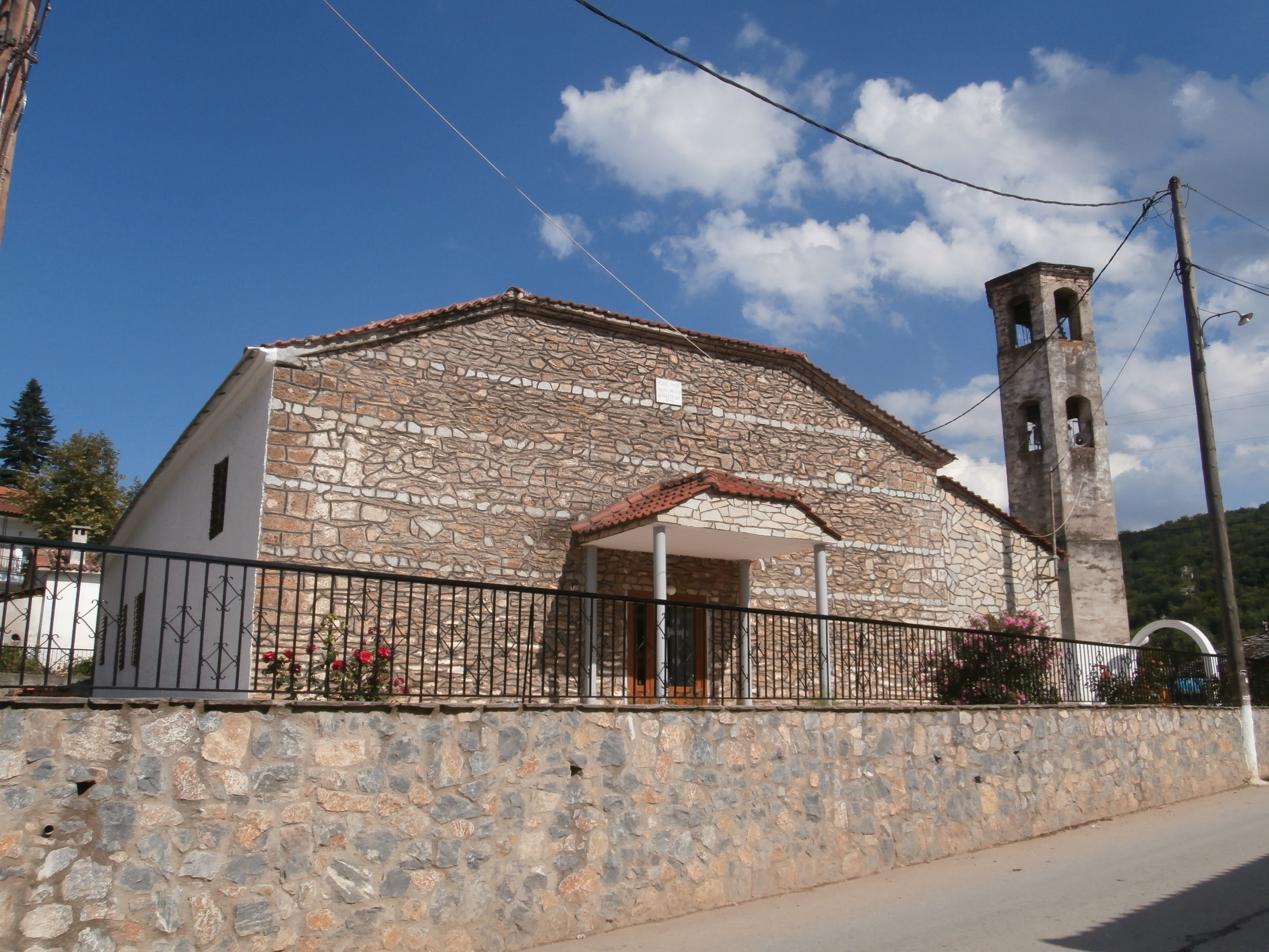 Agios Nikolaos church in Archagelos, built in 1836